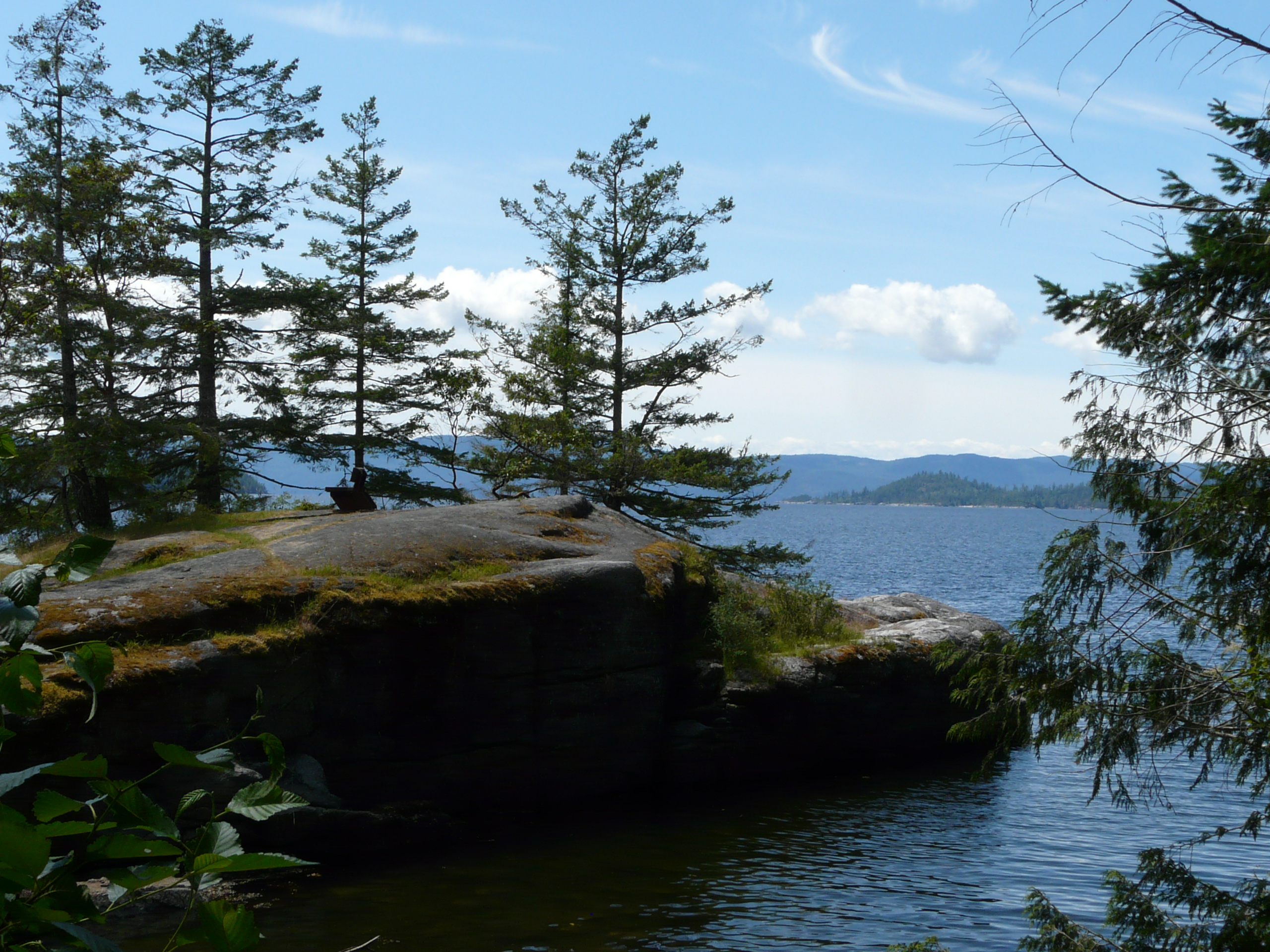 Mermaids Cove at Saltery Bay Provincial Park, B.C.